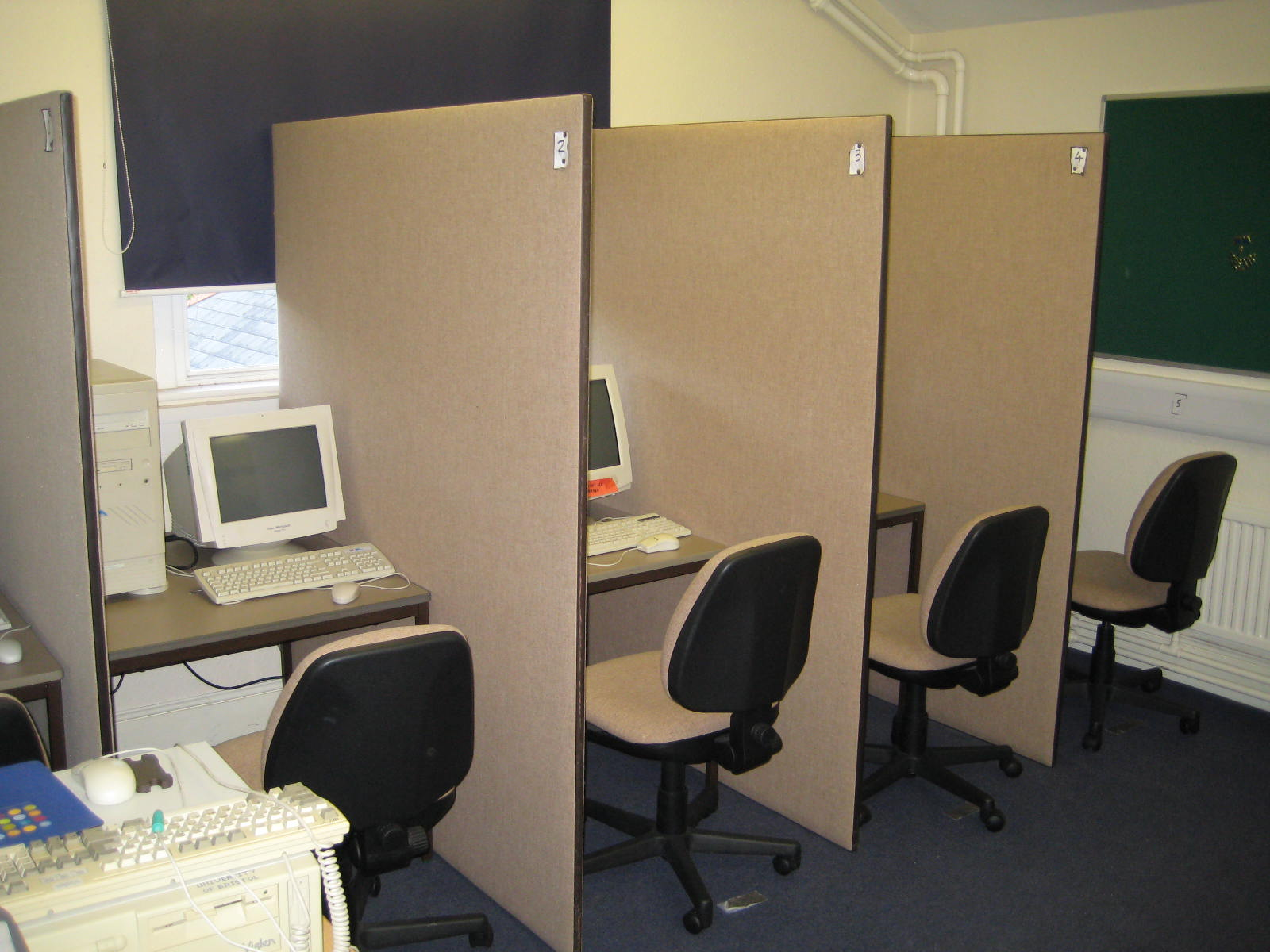 COHP Testing room